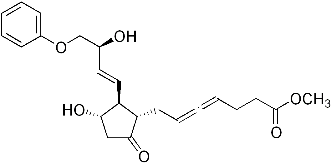 chemical structure of enprostil